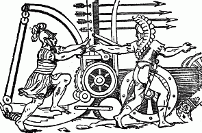 The Catapult